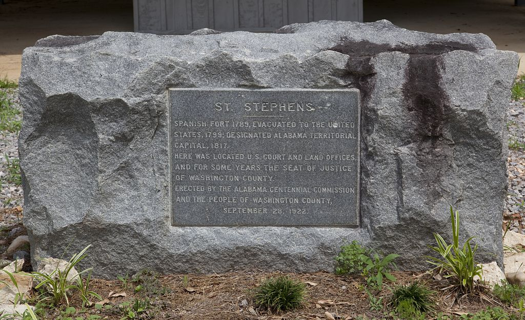 Old St. Stephens Park, St. Stephens, Alabama.